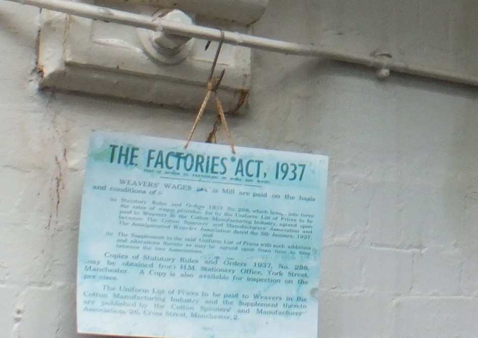 Queen Street Mill in Harle Syke, a suburb to the north-east of Burnley, Lancashire, was built in 1894 for the Queen Street Manufacturing Company. It closed on 12 March 1982 and was mothballed, but was subsequently taken over by Burnley Borough Council and used as a museum. In the 1990s ownership passed to Lancashire Museums. Unique in being the world's only surviving steam-driven weaving shed. Copy of compulsory notice. See also More looms for context.